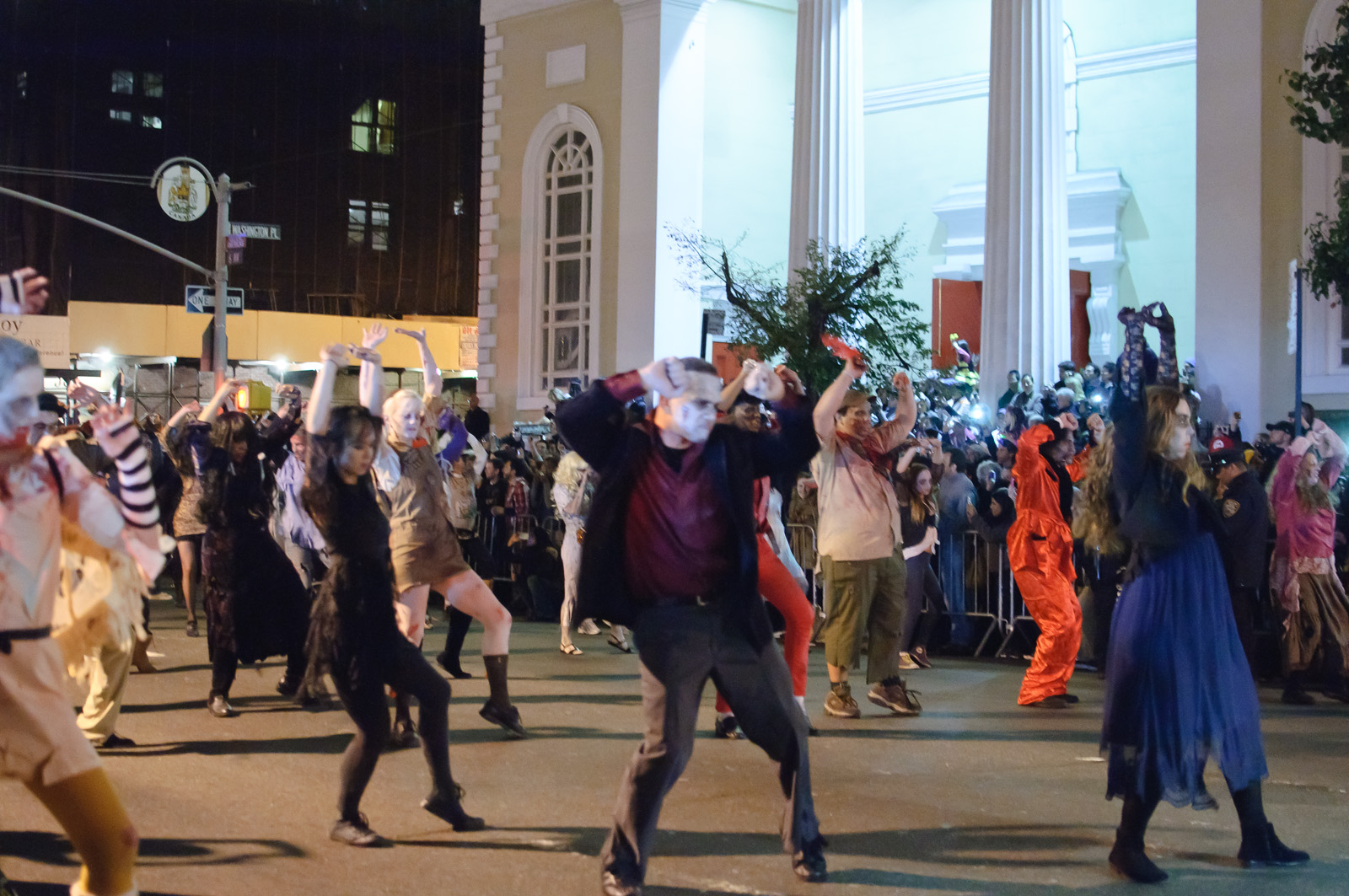 The annual Halloween Parade that takes place in Greenwich Village, heading up Sixth Avenue. It's hard to top this when it comes to Halloween - whether in New York City or anywhere else. This group is doing the mass zombie dance as seen in Michael Jackson's "Thriller" music video. In fact, one of the dancers, who will do some solo dances during some of the routine, is dressed like Michael Jackson.